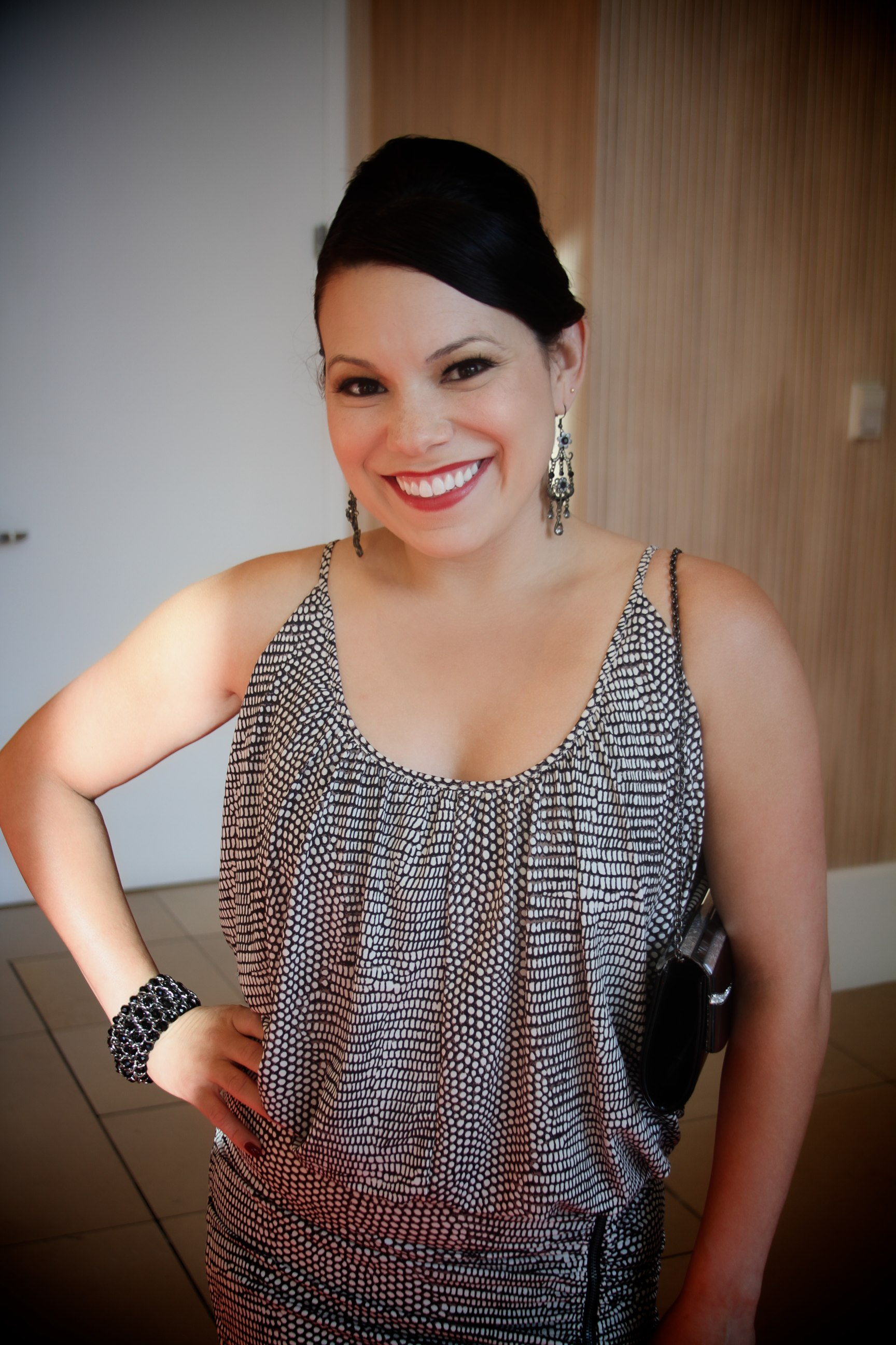 Gloria Garayua at the 2014 Imagen Foundation Awards